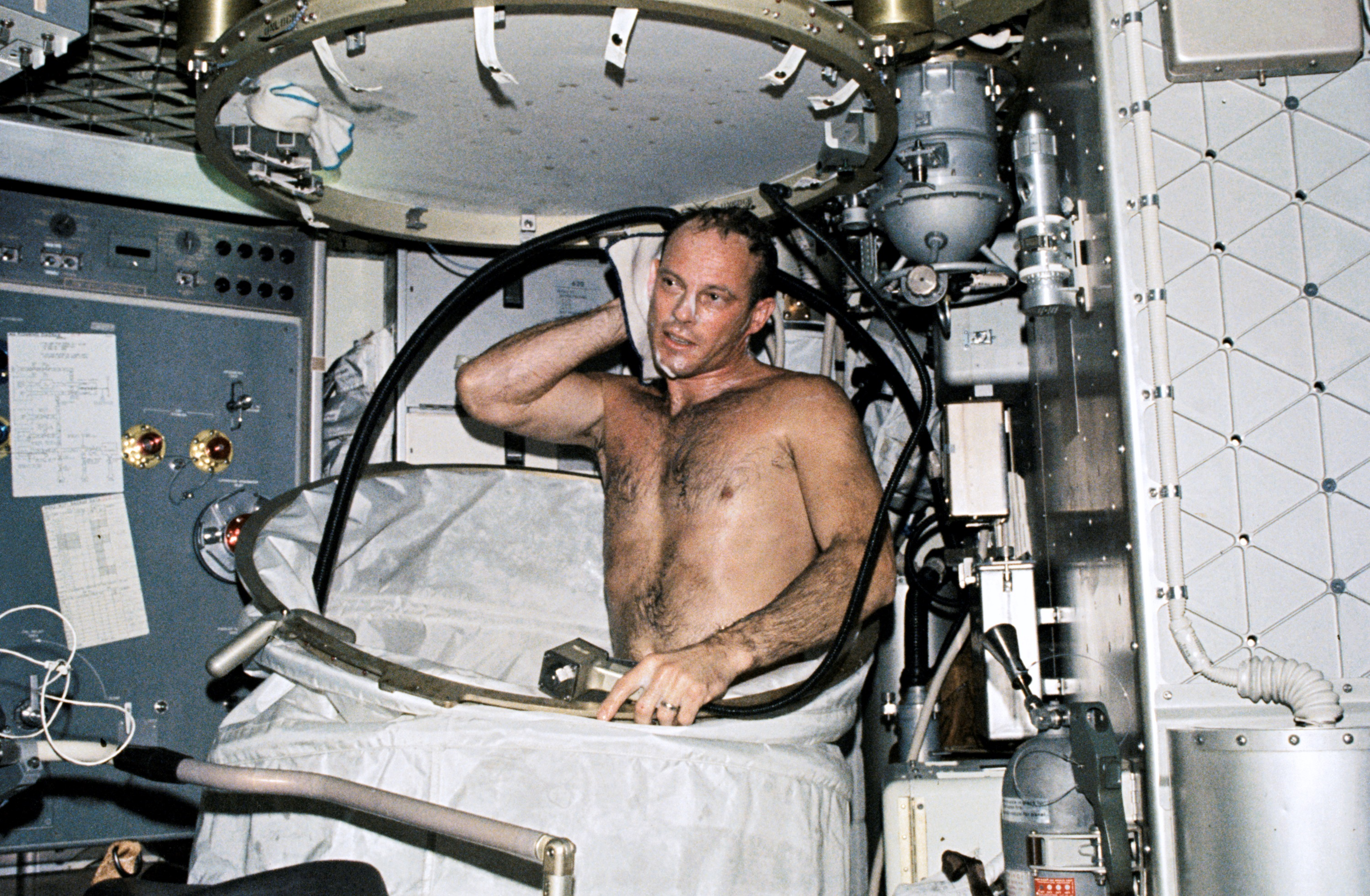 A close up view of astronaut Jack R. Lousma, Skylab 3 pilot taking a hot bath in the crew quarters of the Orbital Workshop (OWS) of the Skylab space station cluster in Earth Orbit. This picture was taken with a hand-held 35mm Nikon camera. Astronaut Lousma, Alan Bean and Owen K. Garriott remained within the Skylab space station in orbit for 59 days conducting numerous medical, scientific and technological experiments. In deploying the shower facility the shower curtain is pulled up from the floor and attached to the ceiling. The water comes through a push-button shower head attached to a flexible hose. Water is drawn off by a vacuum system.